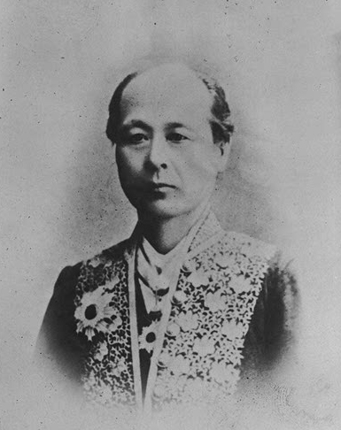 Yasuba Yasukazu